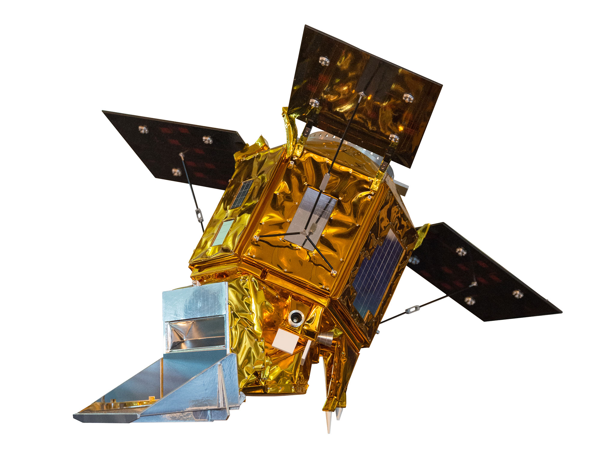 ESA Sentinel-5P satellite model, cut out on a white background